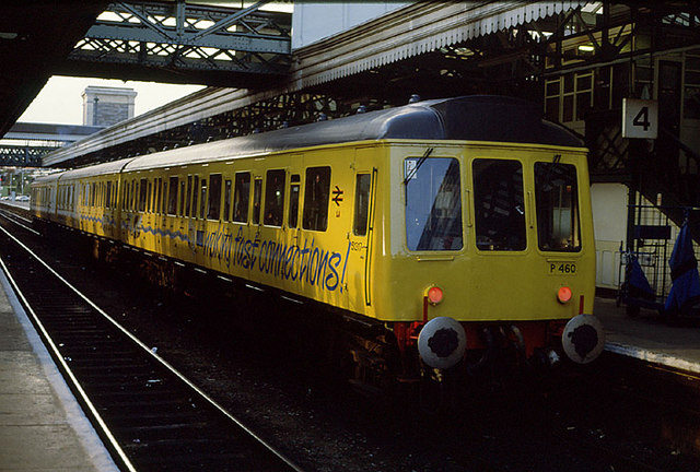 BR class 118 DMU Nos. 51302+59469+51317 in British Telecom advertising livery